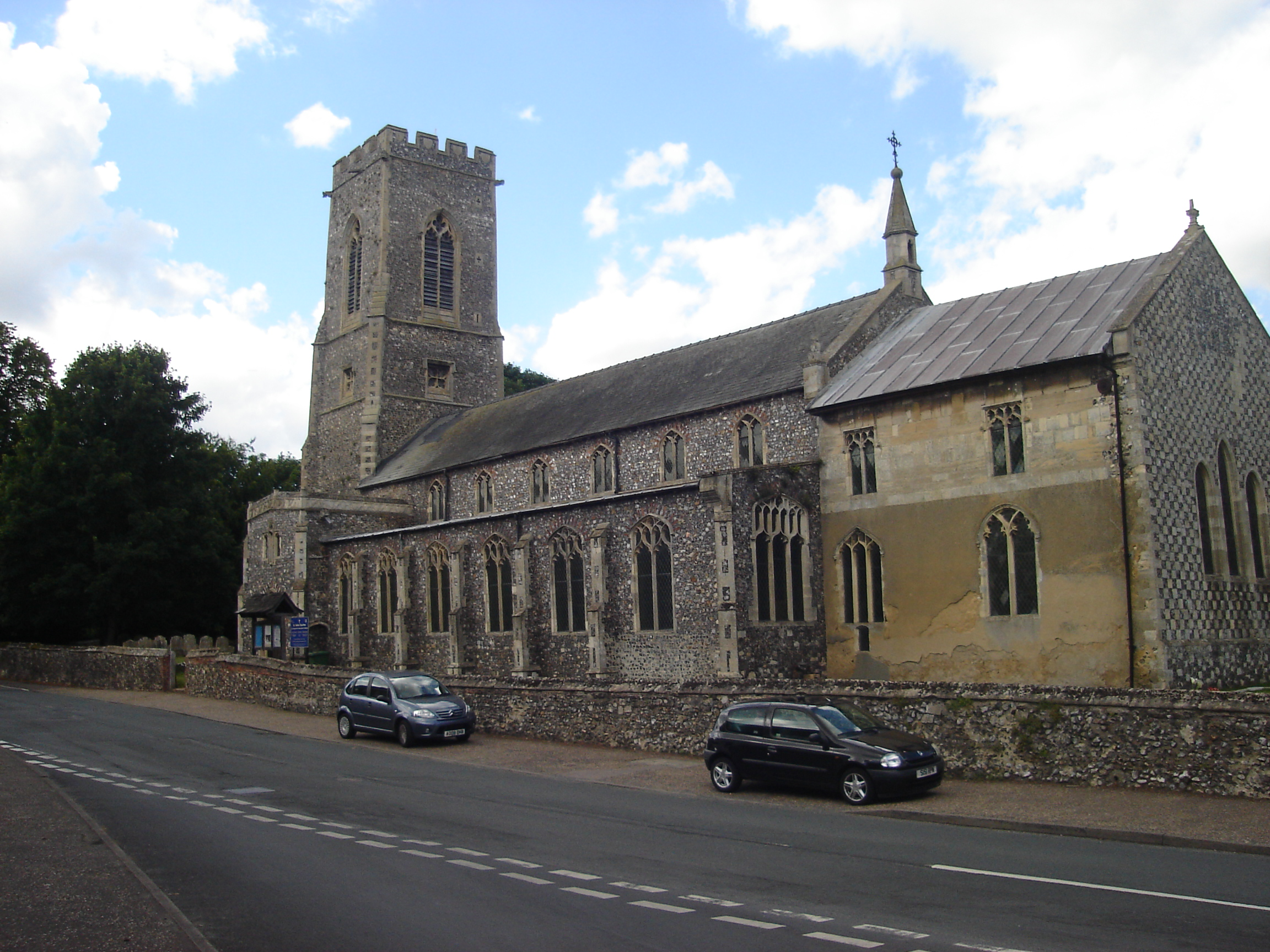 The church of St Mary and St Andrews church, Horsham St Faith, Norfolk